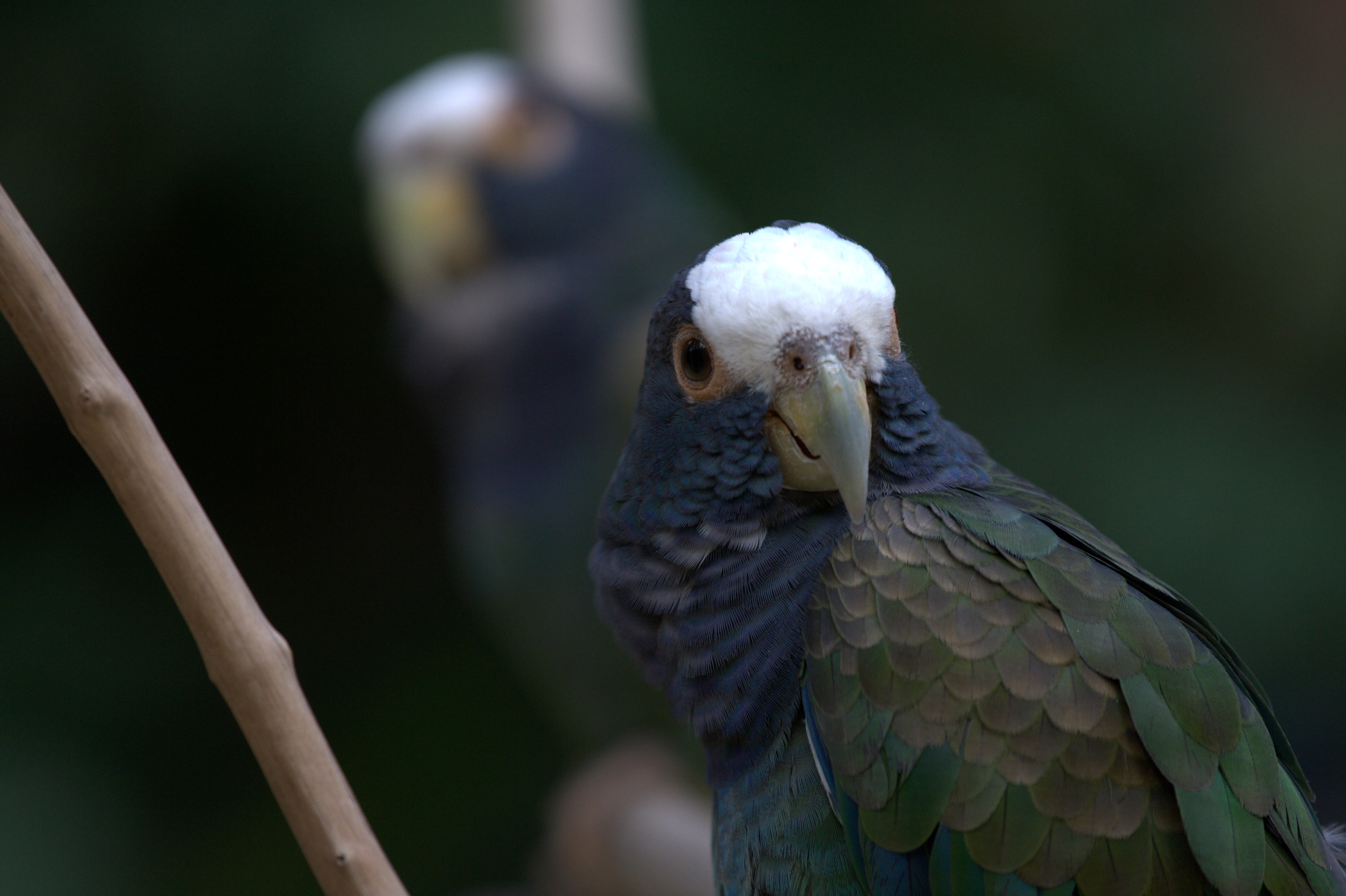 White-crowned Parrot or Plum-crowned Pionus (Pionus senilis) at Macaw Mountain Bird Park and Nature Reserve, Copan, Honduras.